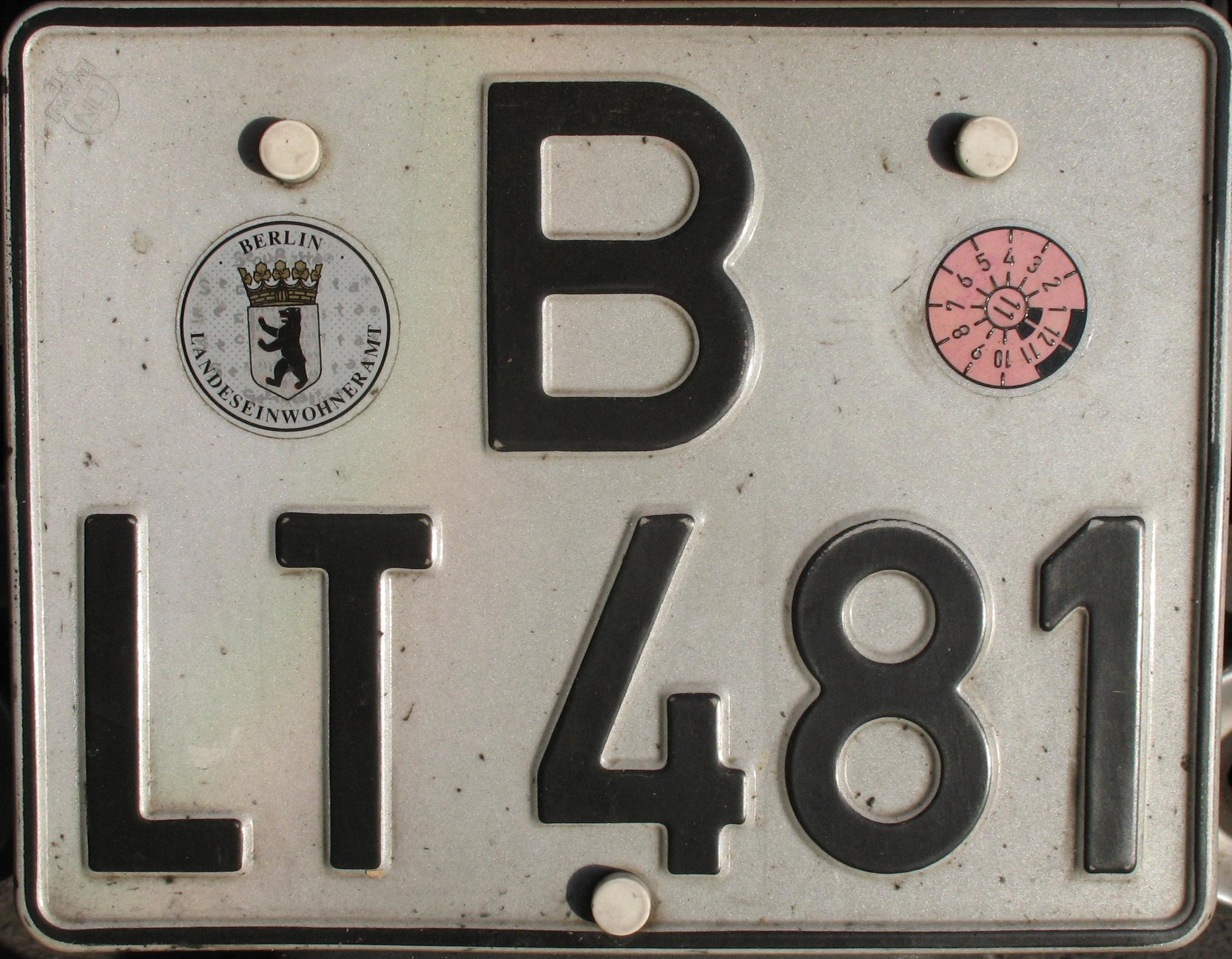 German vehicle registration plate from Berlin, Germany